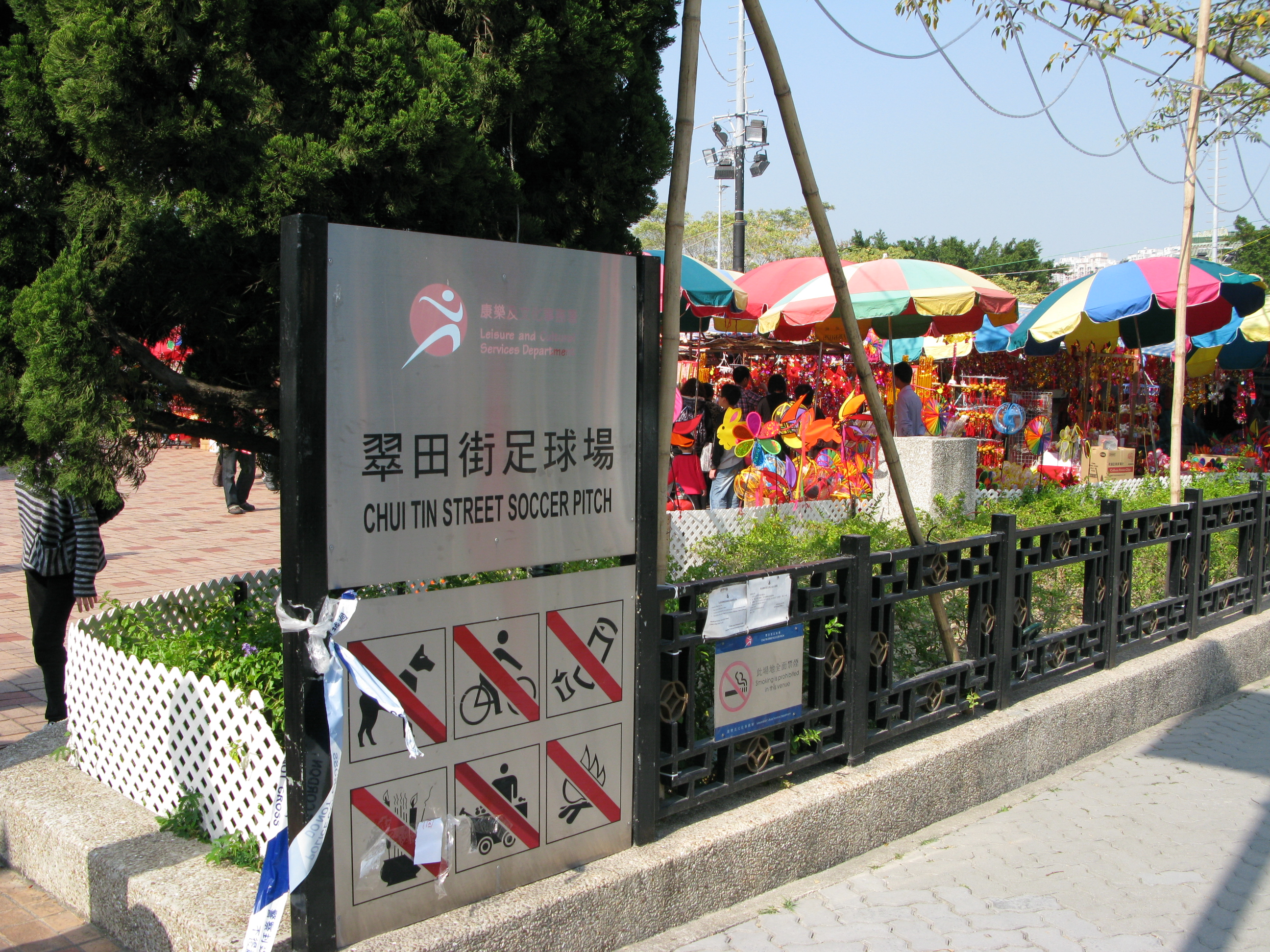 中文（香港）: 香港沙田翠田街足球場 Located in front of Che Kung Temple